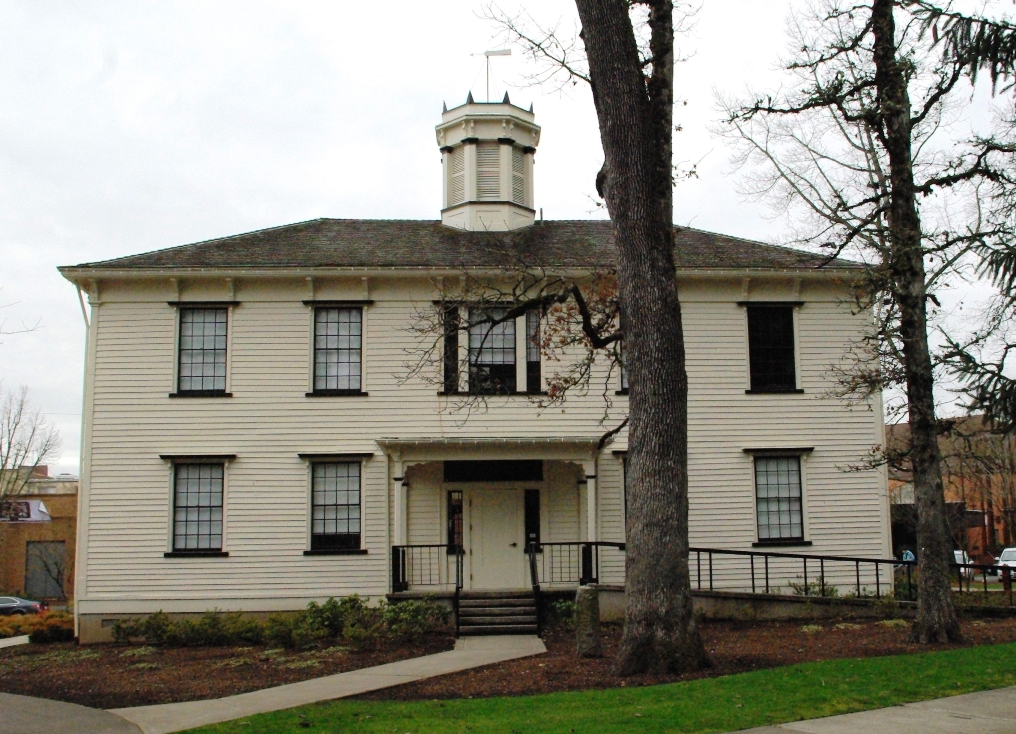 Tualatin Academy at Pacific University in Forest Grove, Oregon, USA